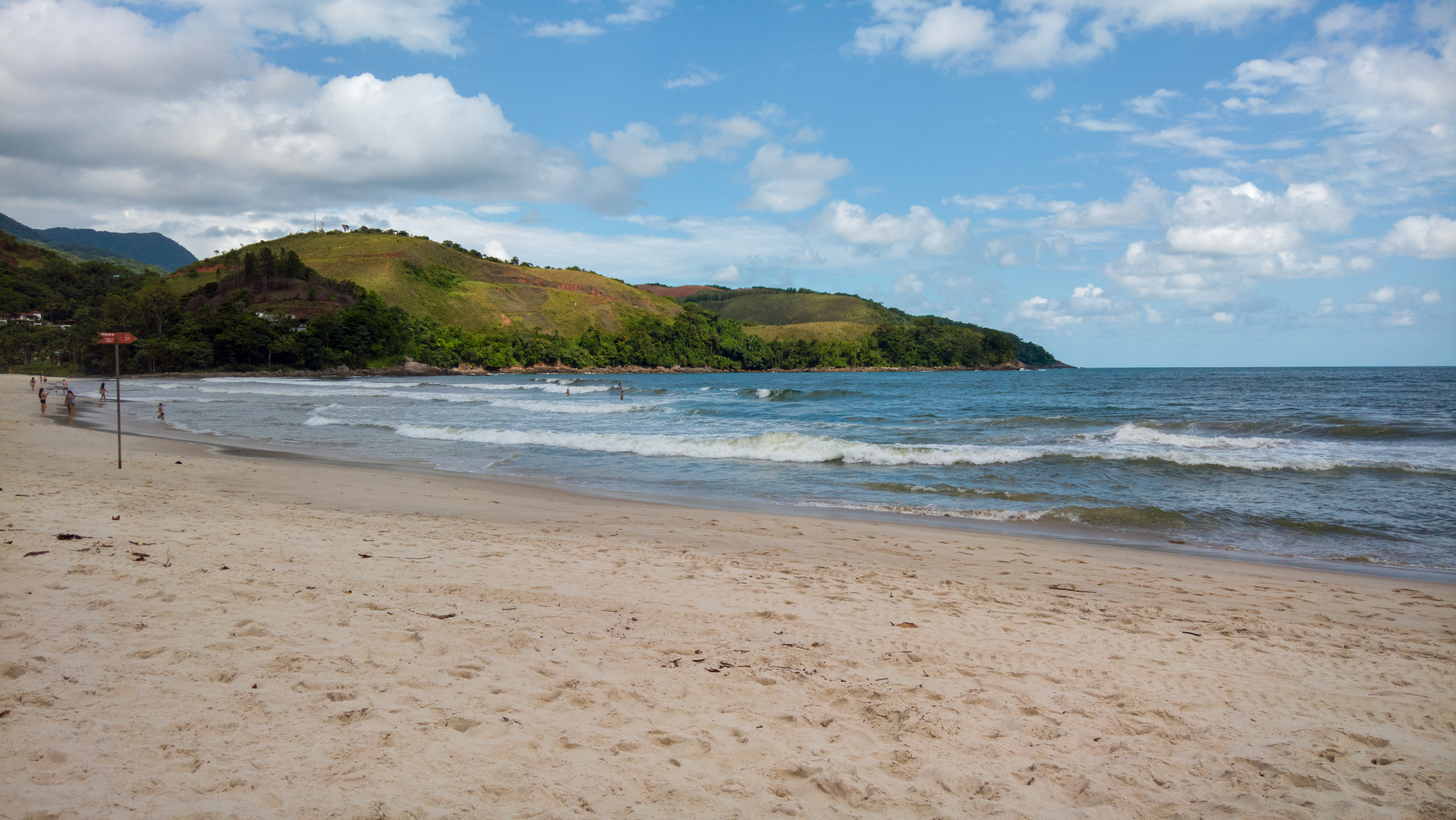 Maresias beach, São Paulo, Brazil.